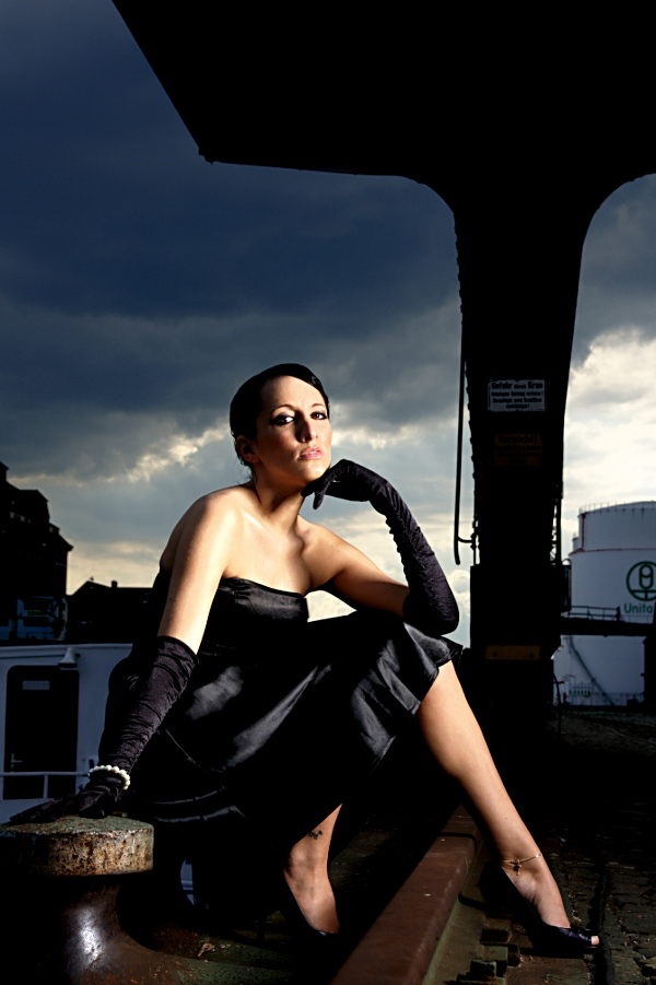 Photographer: Thomas Schmidt (netAction) Model: tasha (Germany, USA) Location